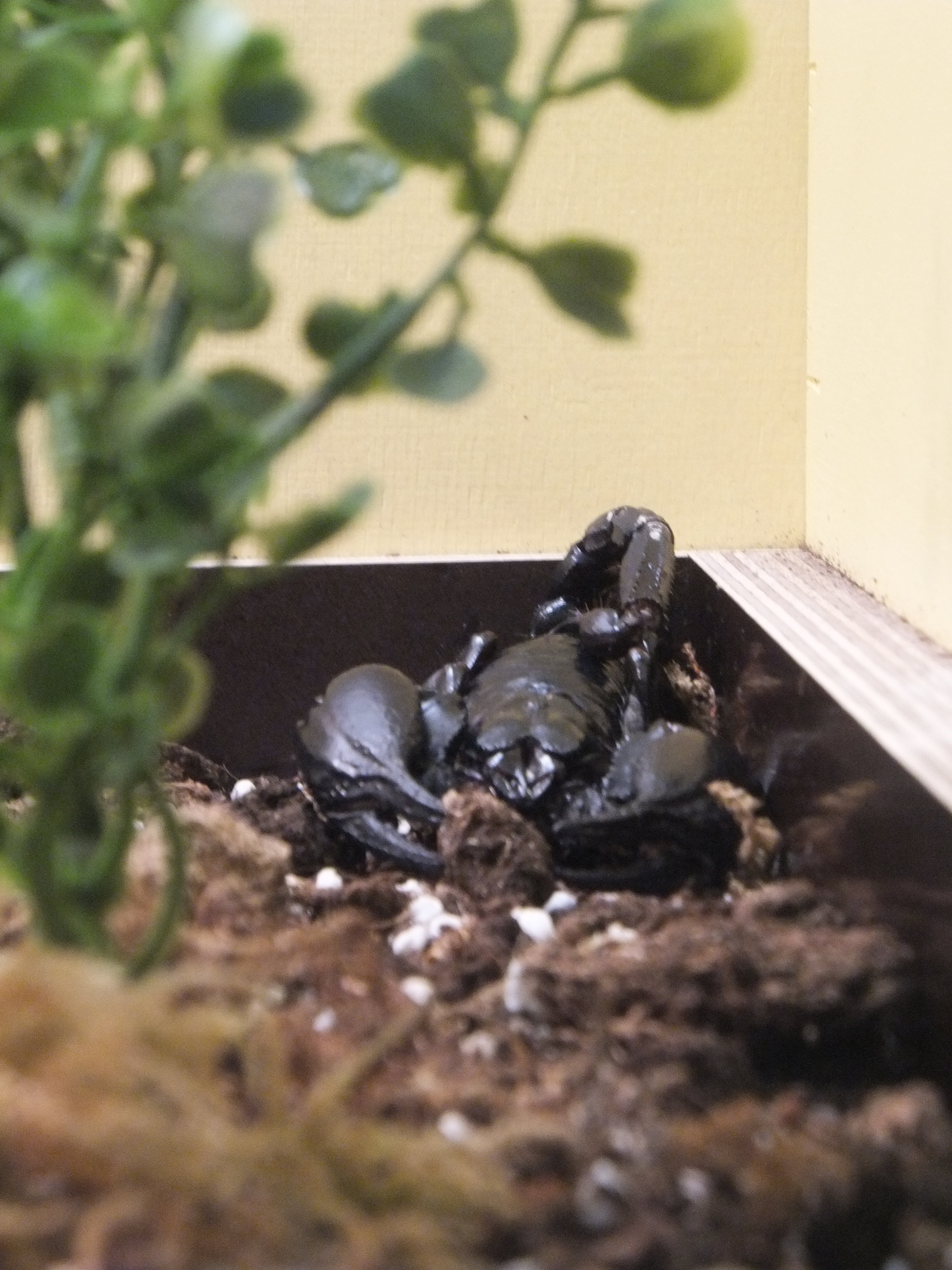 "SPIDERS" exposition at the Museo di storia naturale Giacomo Doria - Heterometrus laoticus